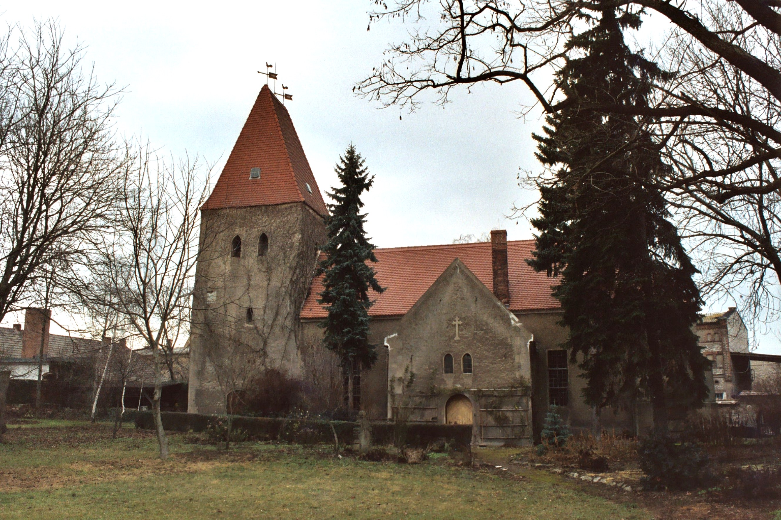 Glöthe (Staßfurt), the village church